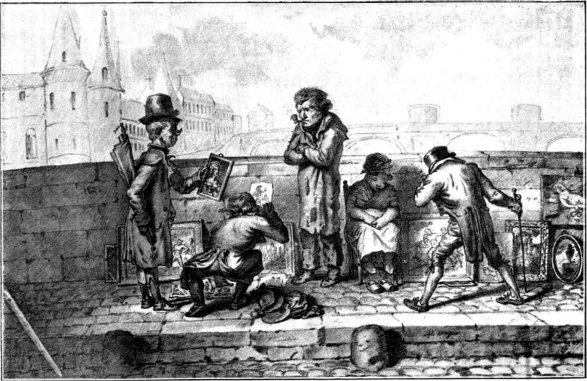 Print-sellers in Paris, France, 1821